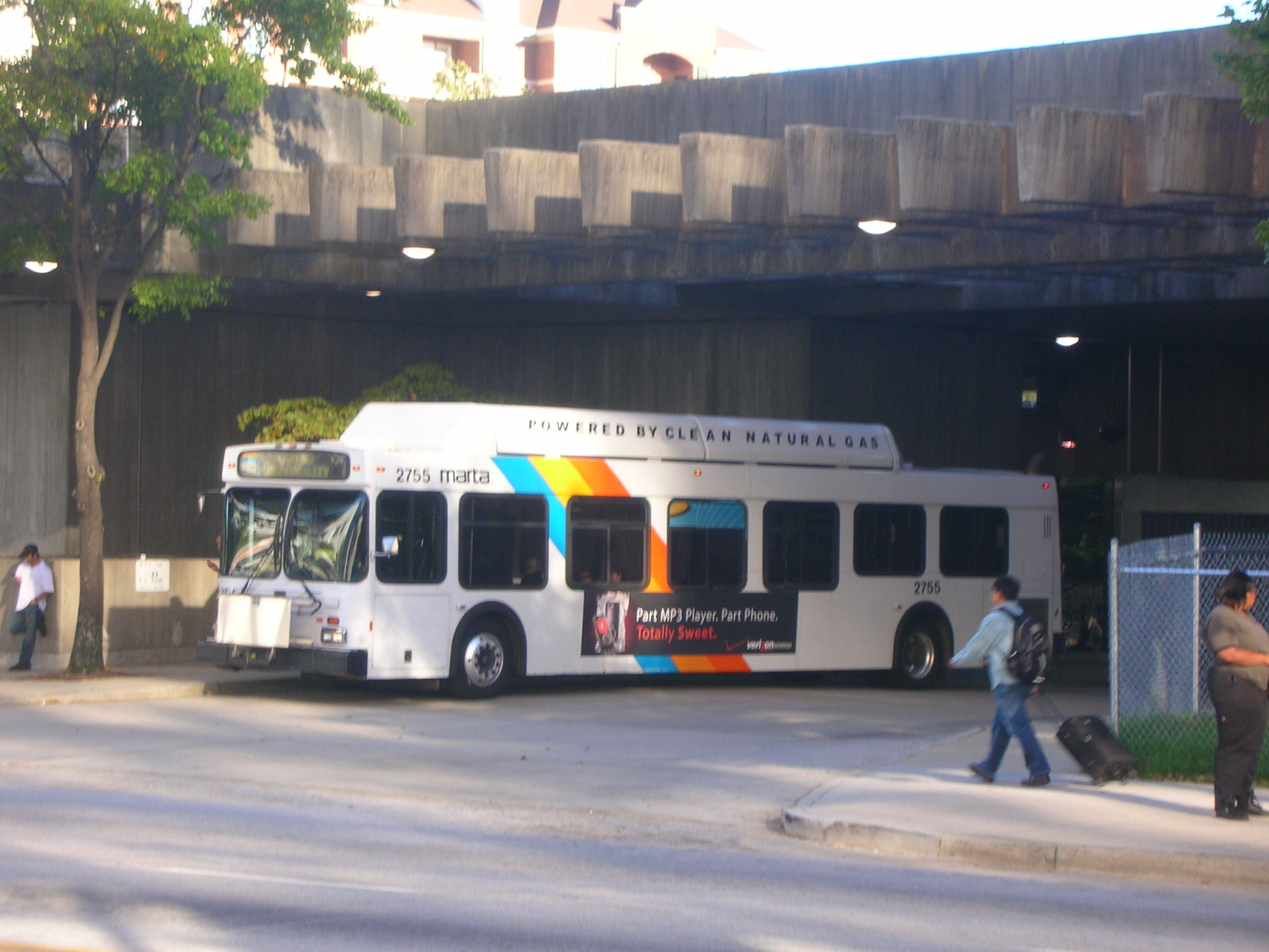 MARTA New Flyer C40LF in Midtown.